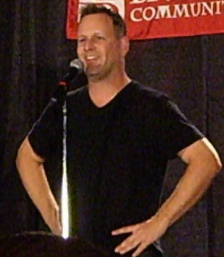 Category:Dave Coulier Dave Coulier at Brookdale Community College on September 14, 2010.